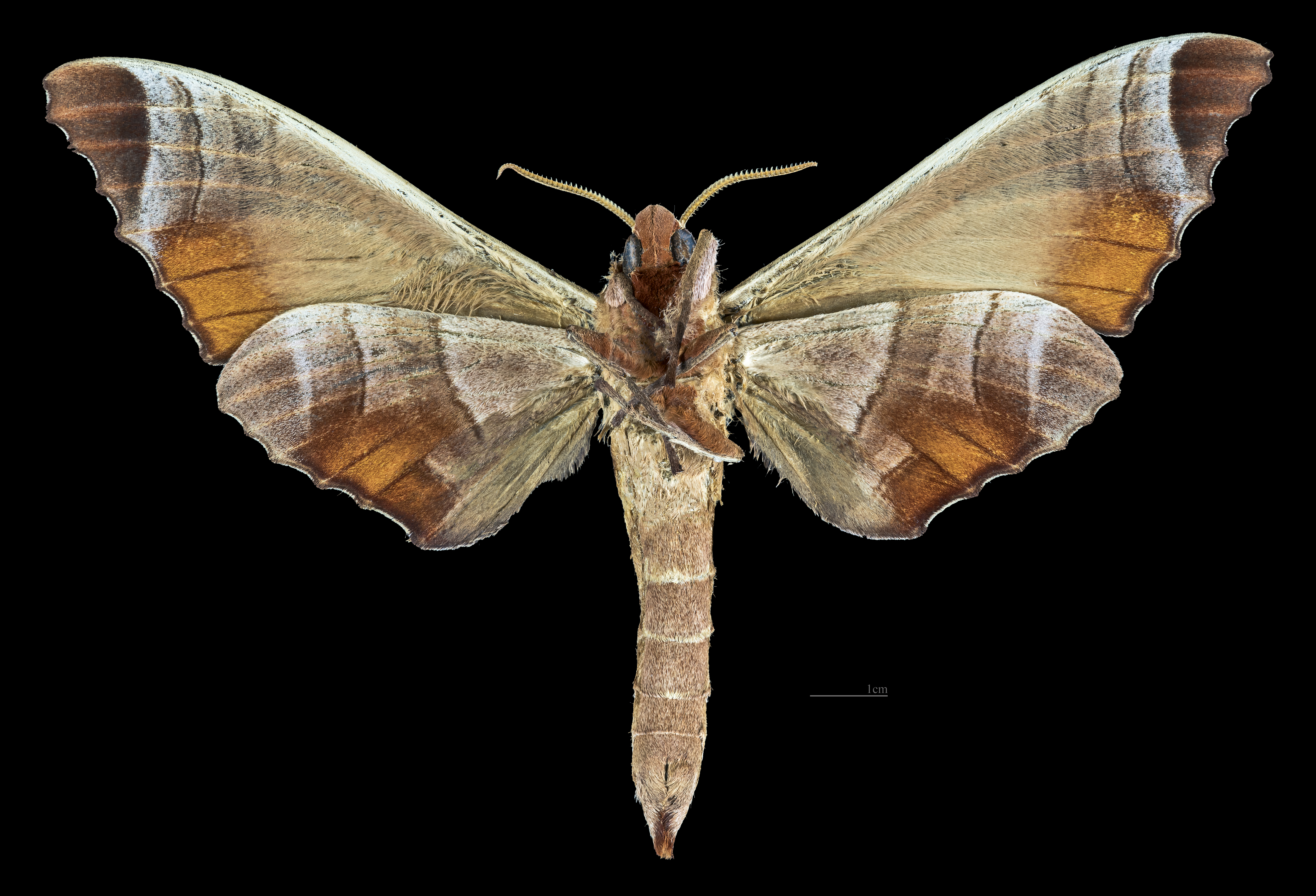 Marumba saishiuana - △ Ventral side Collection of the Mathematician Laurent Schwartz